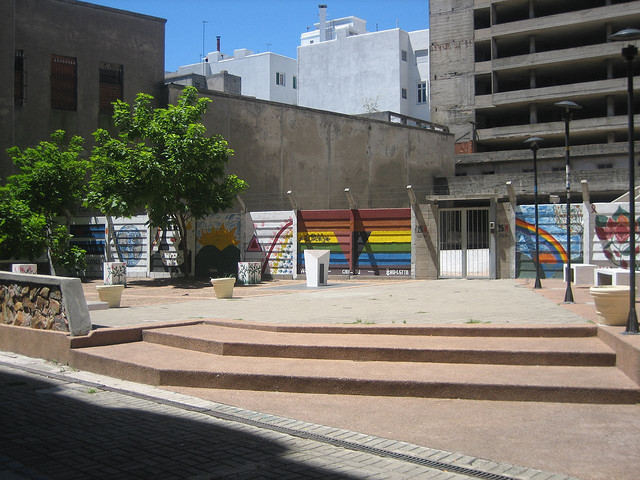 Sexual diversity monument, South America's first monument dedicated to sexual diversity. Montevideo, Uruguay